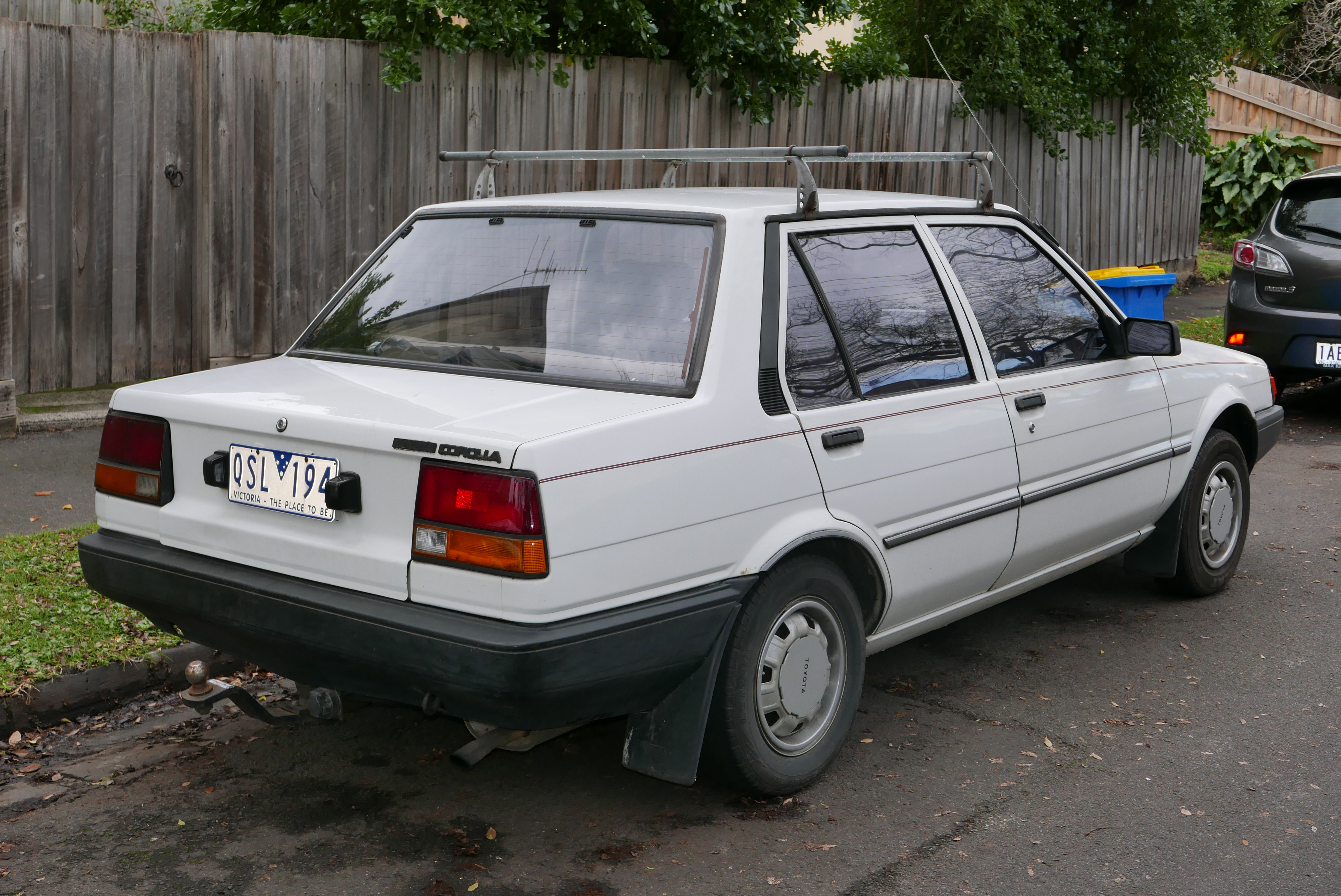 1985 Toyota Corolla (AE80) S sedan. Photographed in Kew, Victoria, Australia. Vehicle registration enquiry results Jurisdiction Victoria Registration QSL194 Chassis code AE809701289 Engine code 2A5253099 Compliance date 1985-01 Year of manufacture 1985